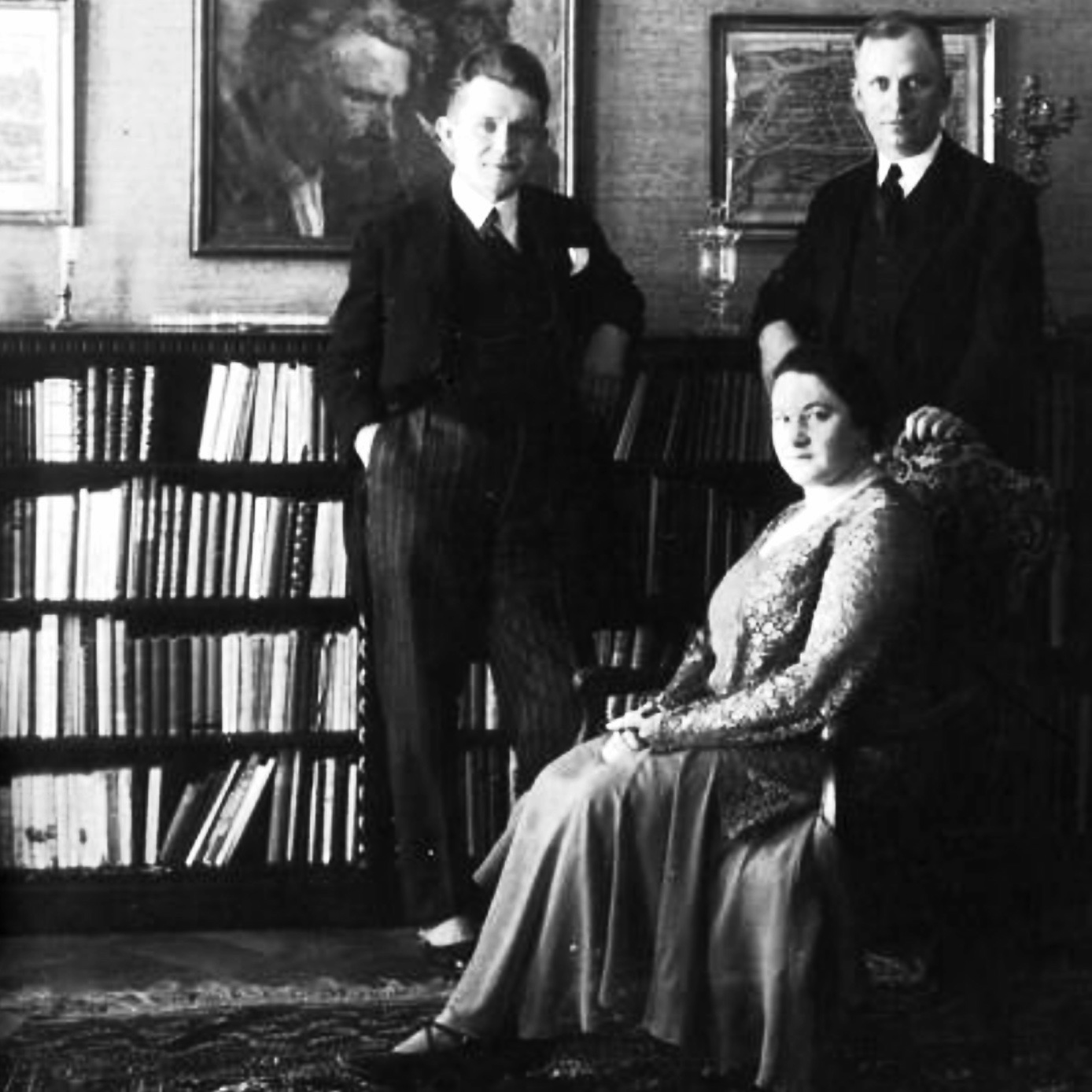 From the left: Valentinas Gustainis (1896–1971), Ida Trakiner-Savickienė and her husband Jurgis Savickis (1890–1952) in Stockholm